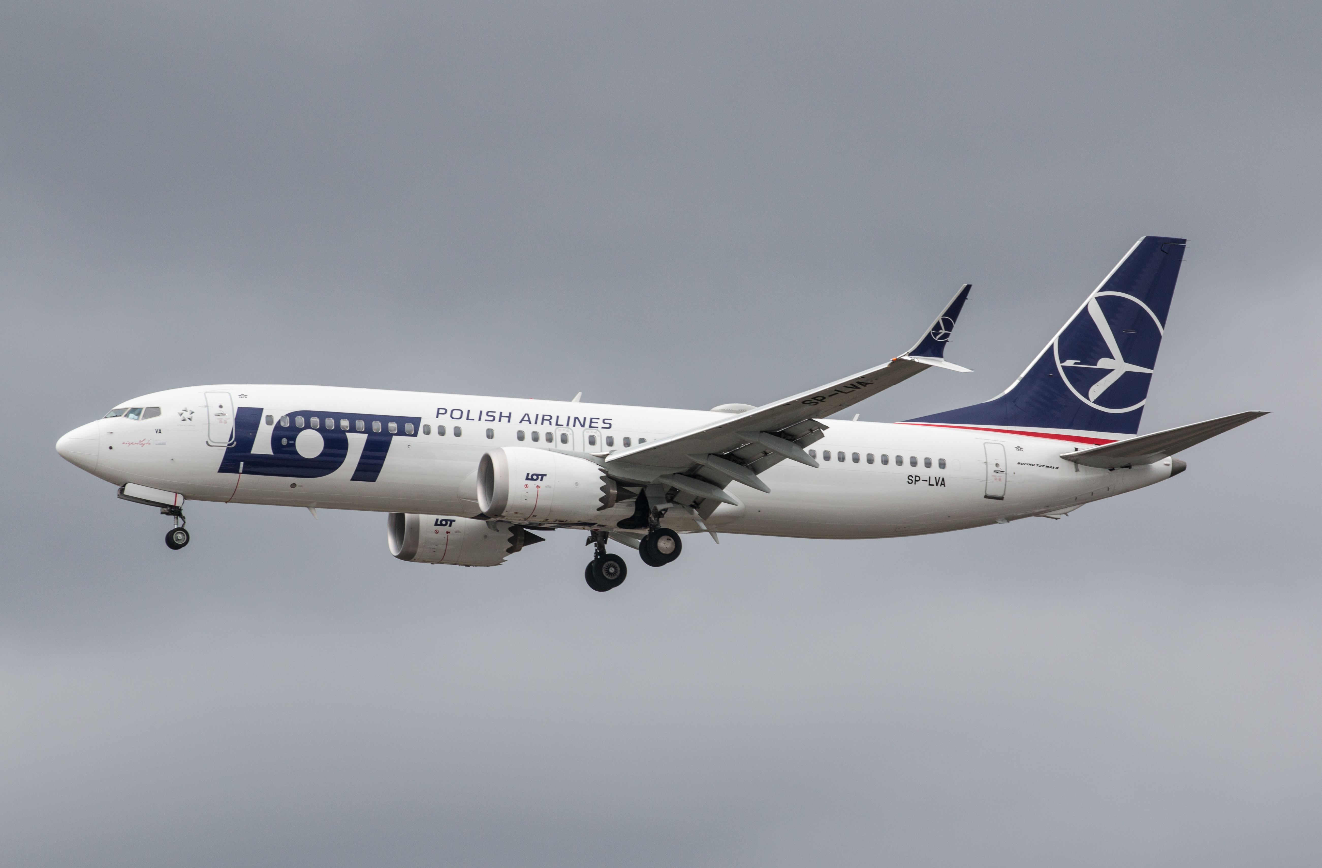 Heathrow Airport, London